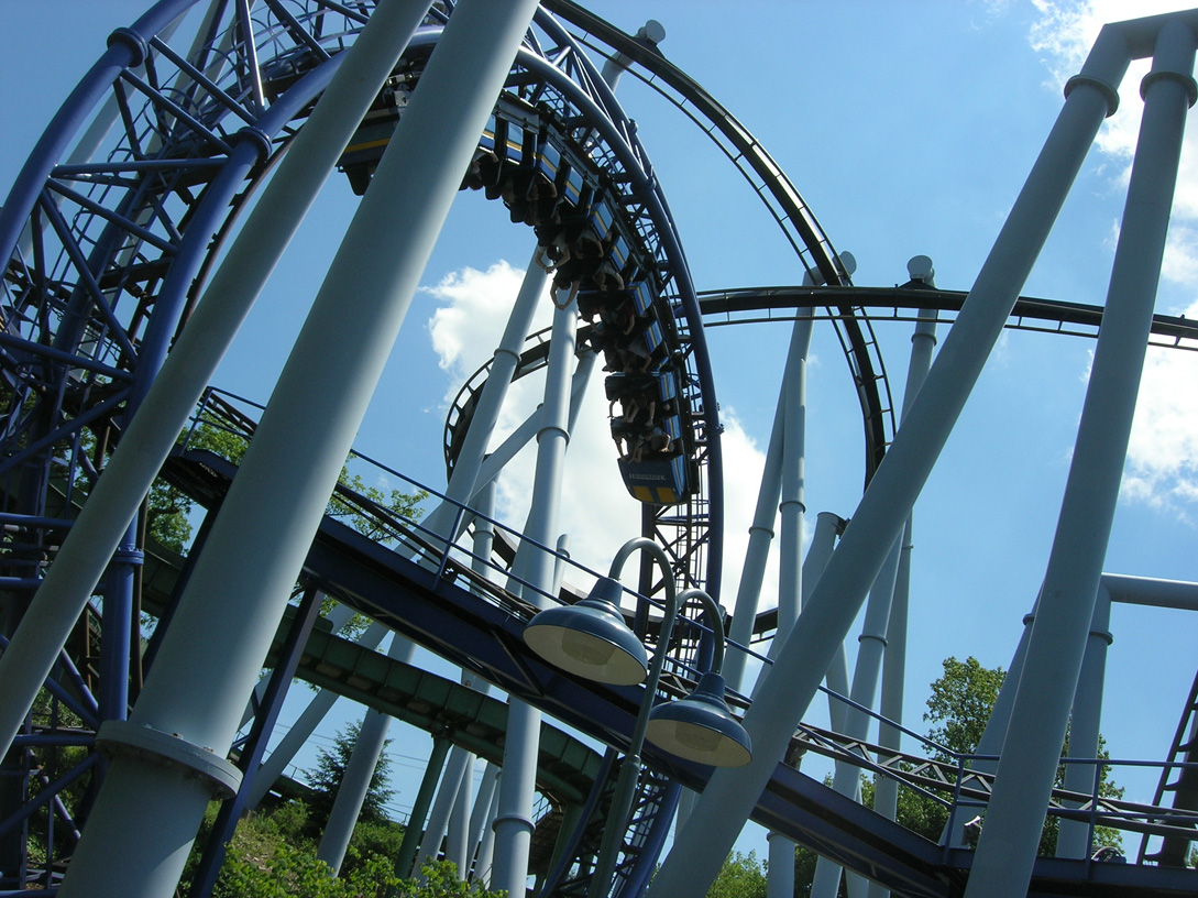 Sooperdooperlooper at Herhseypark Photo by Ryan Painter